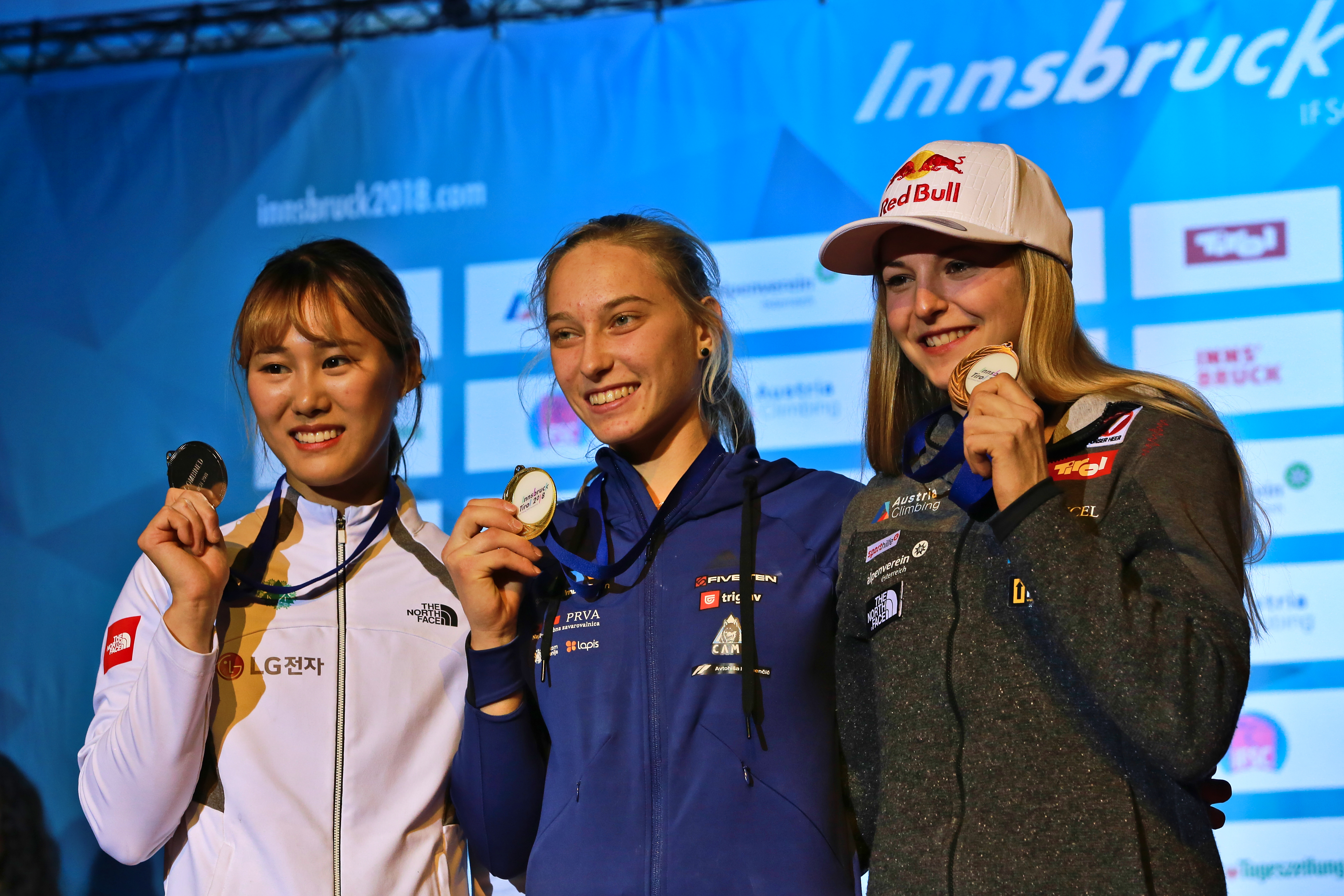 Climbing World Championships 2018 Combined Final Woman winners (2. Sol Sa, 1. Janja Garnbret, 3. Jessica Pilz)